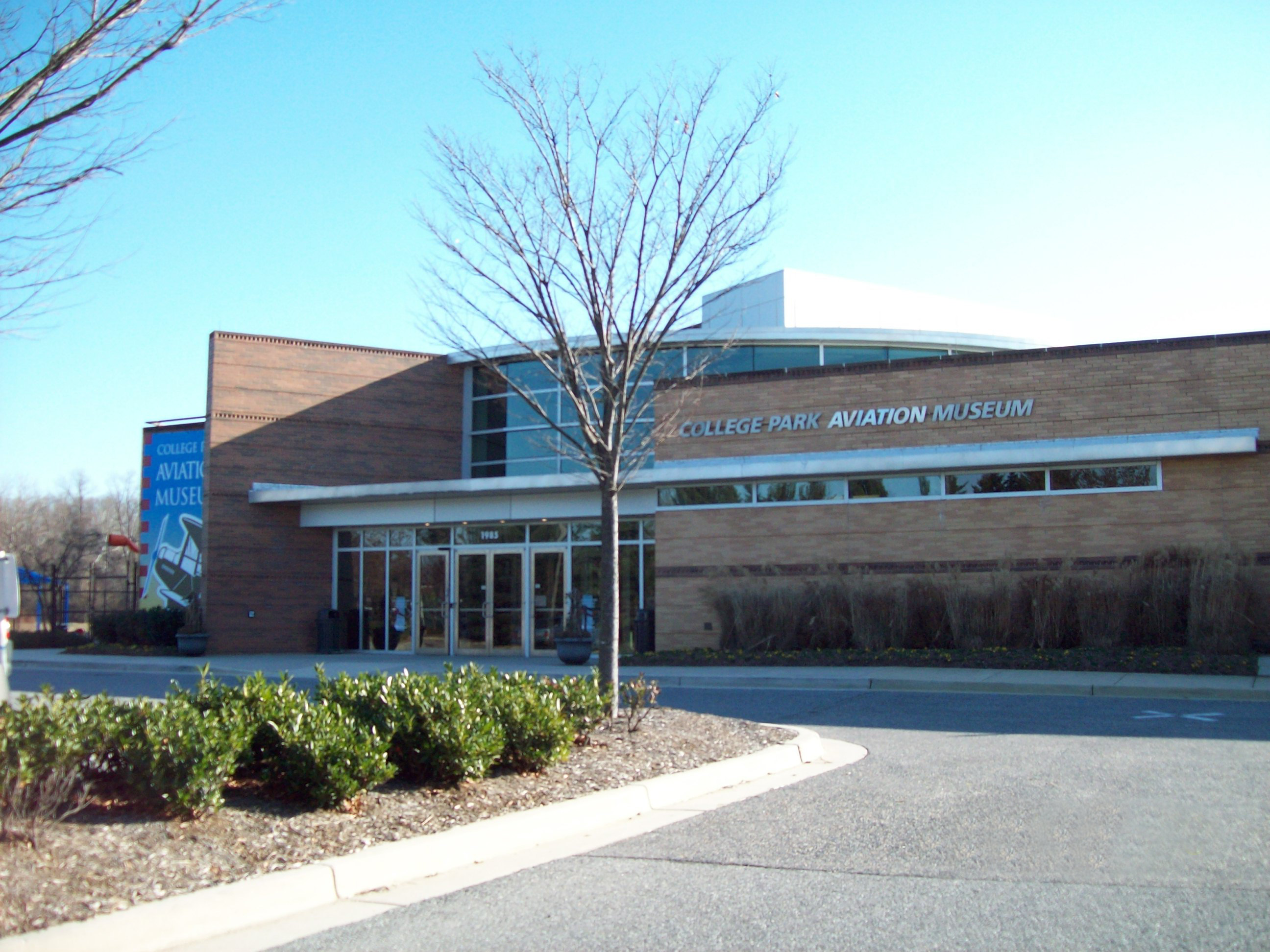 College Park Aviation Museum, December 2008